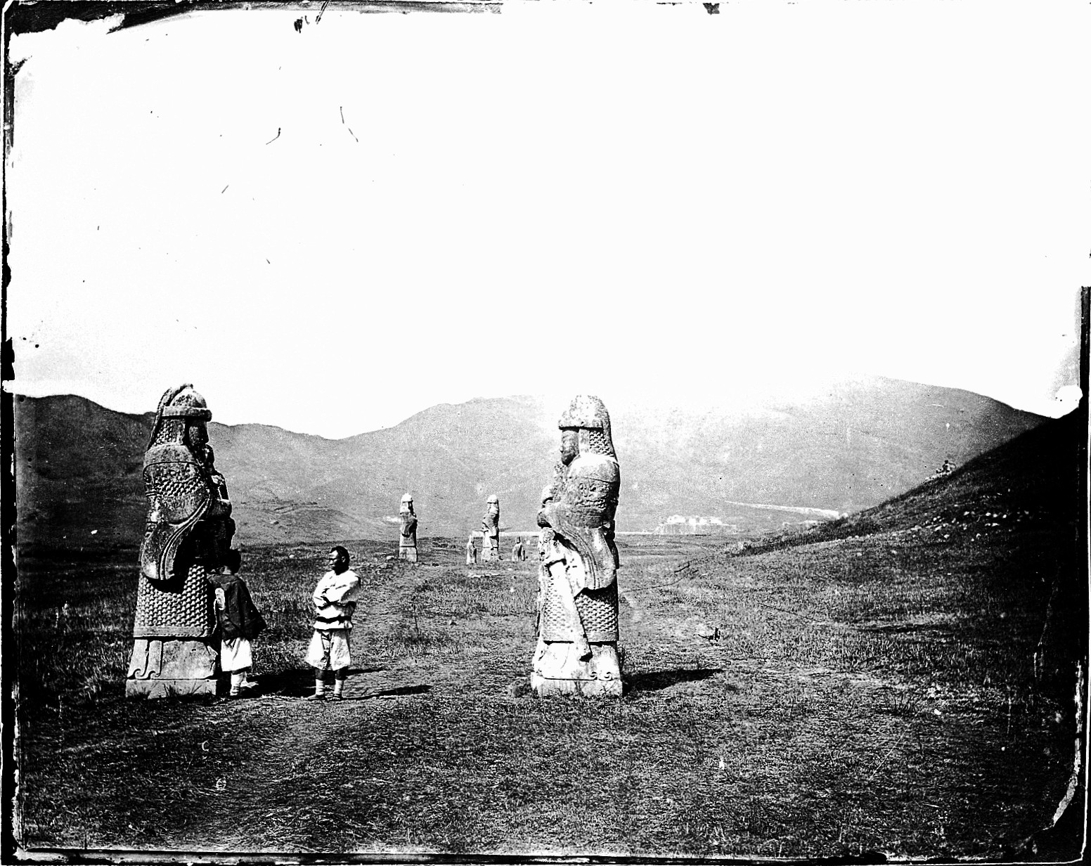 Ming tombs of Emperors, Nangking, Kiangsu province, China Iconographic Collections Keywords: Landscape; China; John Thomson; John Thomson